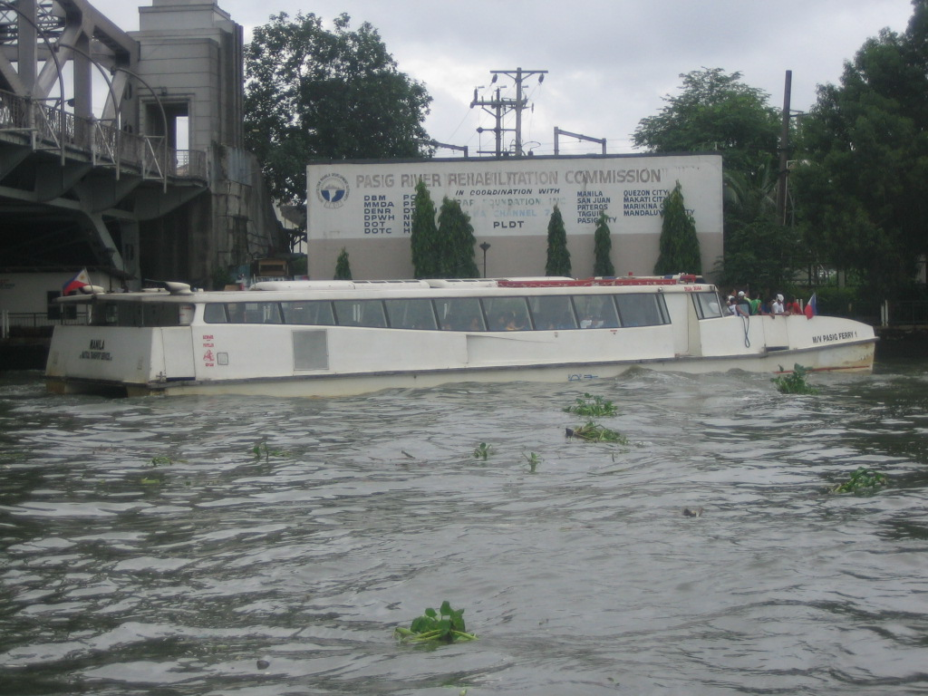 Pasig Ferry 1 docking at Lawton Station under the Quezon Bridge in the Pasig River in Ermita, Manila.